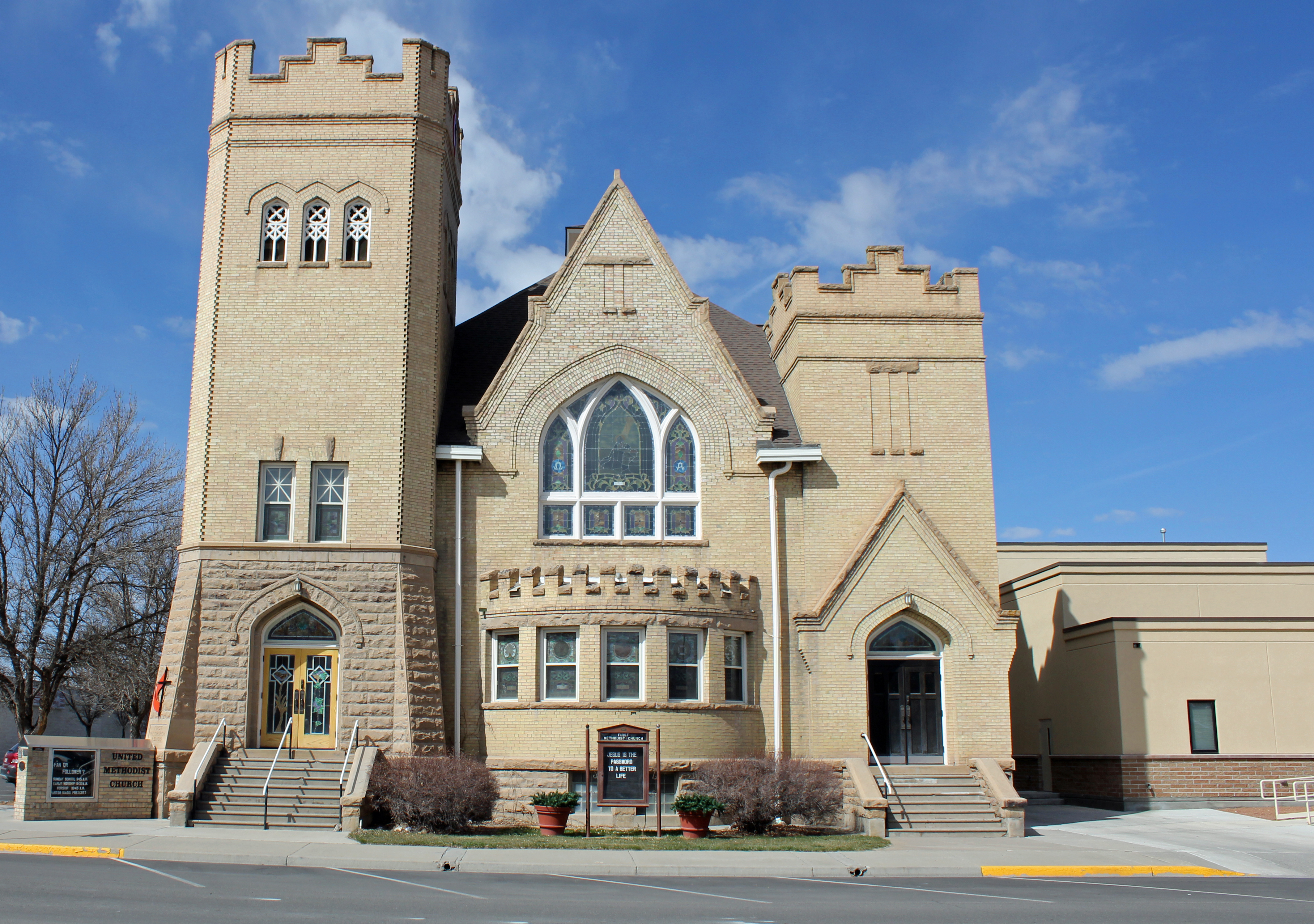 The First Methodist Episcopal Church of Delta, located at 199 East 5th Street in Delta, Colorado. The property is listed on the National Register of Historic Places.